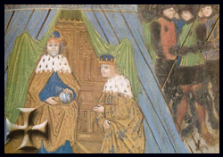 renaud and manuel